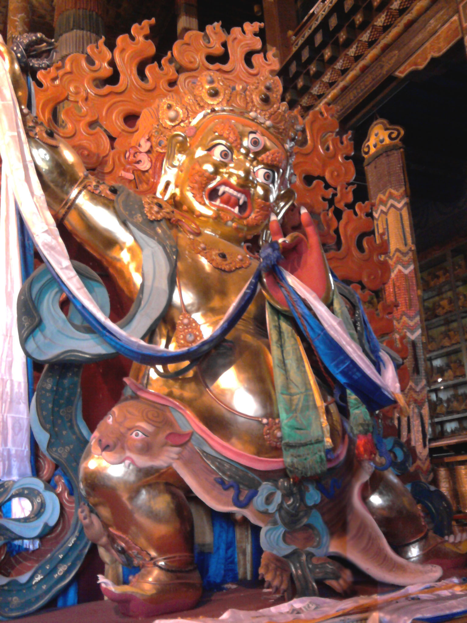 Ganden Tegchinlin Monastery Vajrapāói in God, the protector of the people of Mongolia